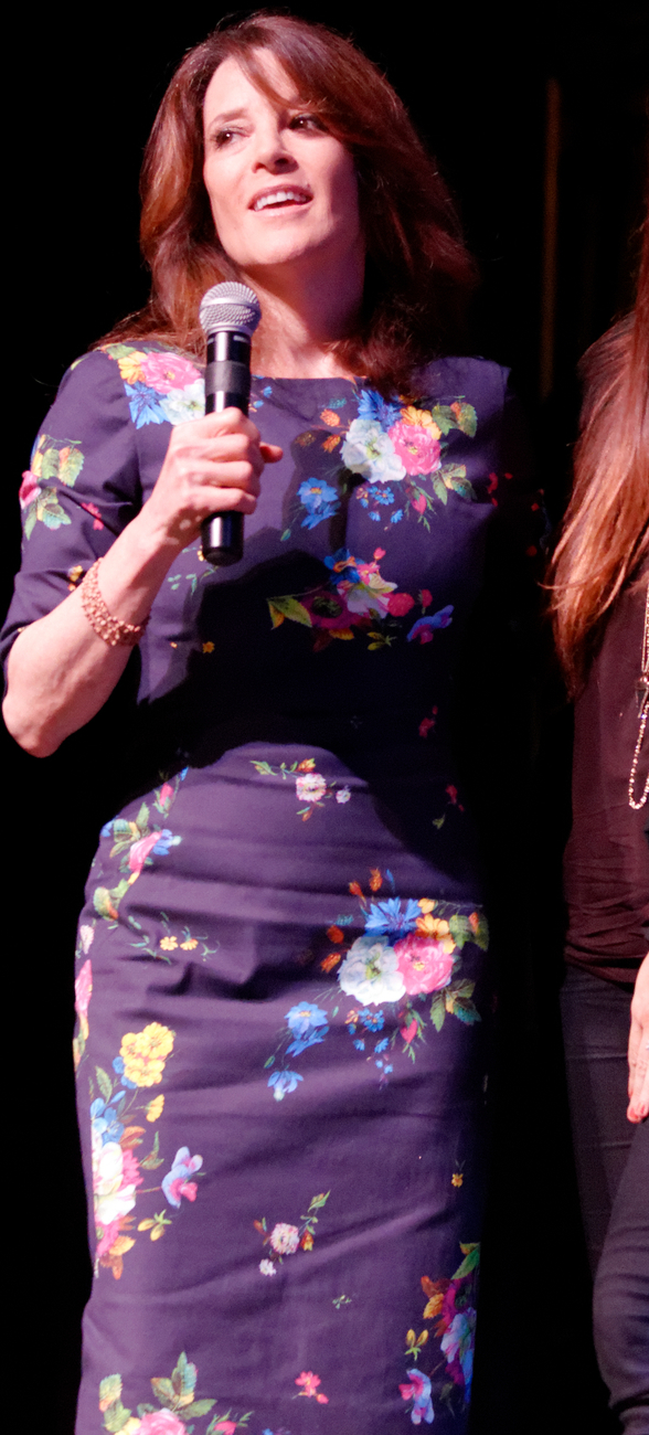 Alanis Morissette performing live at the Saban Theatre in Beverly Hills CA on October 20th, 2013. Alanis was the special musical guest at Marianne Williamson's event to announce her candidacy for Congress (U.S. House of Representatives, District 33).